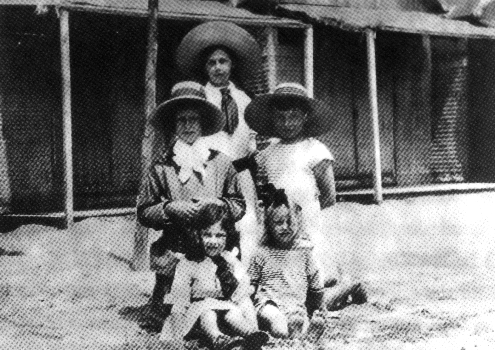 Italy, Venice: Władysław "Adzio" Moes (left, center) with his sisters and friend Jan "Jas" Fudakowski. He was the living model for the fictional character of Tadzio in Thomas Mann's novella "Death in Venice". At the time the picture was taken (and when he met Thomas Mann), the young Moes was not yet eleven years old.